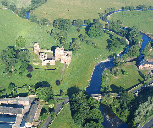 River Eamont at Brougham Castle, Cumbria near to Carleton, Cumbria, Great Britain. This view shows the waters of the River Eamont and River Lowther meeting at Brougham Castle.